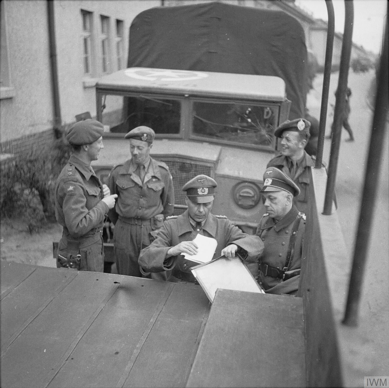 The Liberation of Bergen-belsen Concentration Camp, April 1945 Lieutenant Colonel R I G Taylor (left) of 63rd Anti Tank Regiment Royal Artillery, the first British unit to enter Belsen, and the German officers commanding the Wehrmacht troops in the camp finalise arrangements for the German Wehrmacht troops to return to their lines at the end of the temporary truce agreed between German and British forces on 12 April 1945.